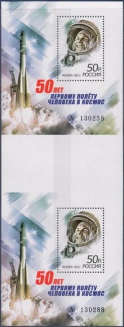 Russia 2011. Vertical pair of stamp souvenir sheet. Yuri Gagarin, First Man in Space, 5Oth Anniversary